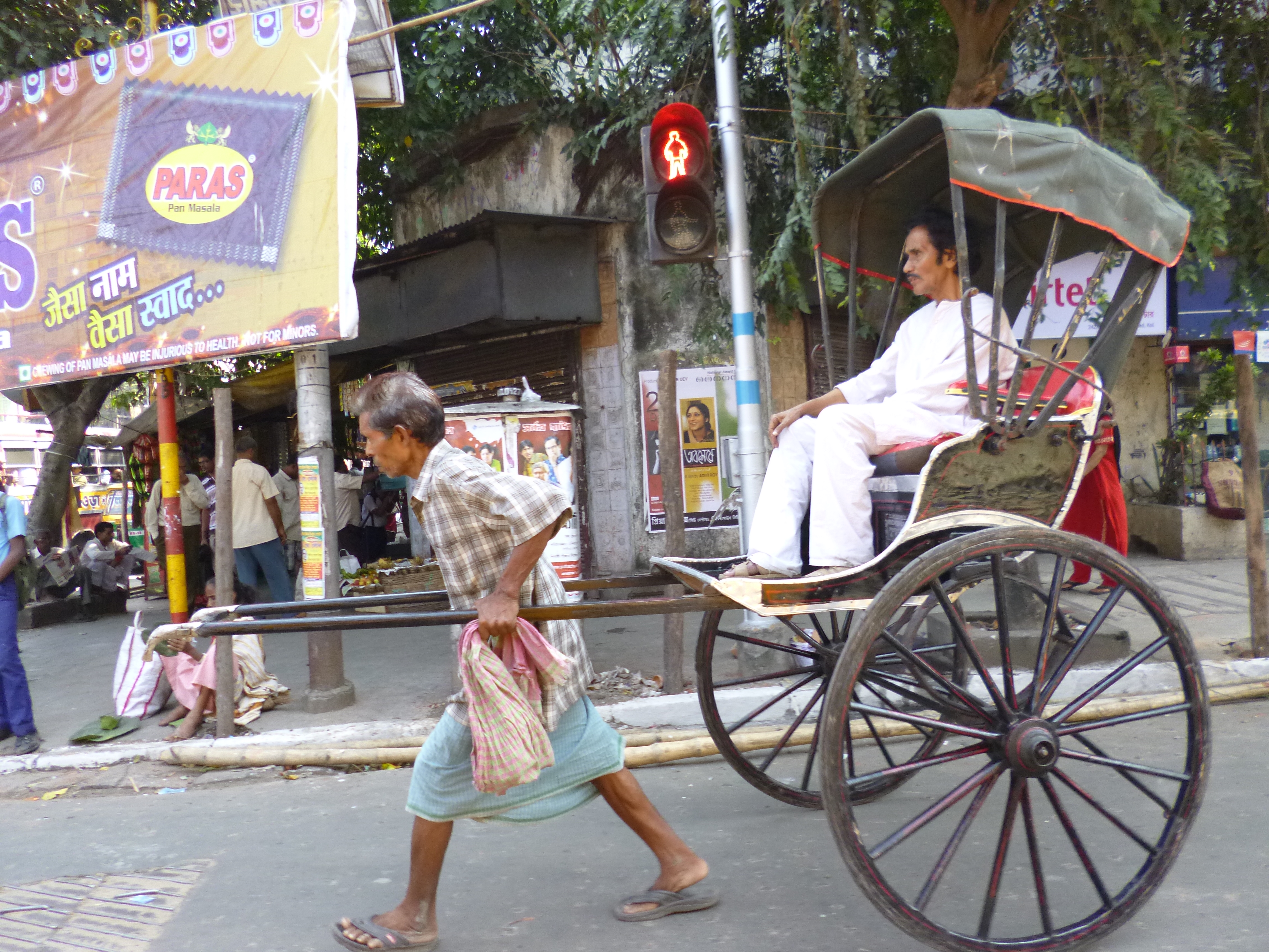 A human-pulled rickshaw in Kolkata (India) - 2012